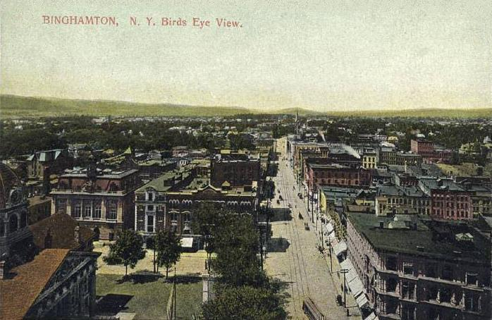 Bird's-eye view, Binghamton, New York; from a c. 1910 postcard published by the Paul C. Koeber Company, New York City and Kirchheim, Germany.